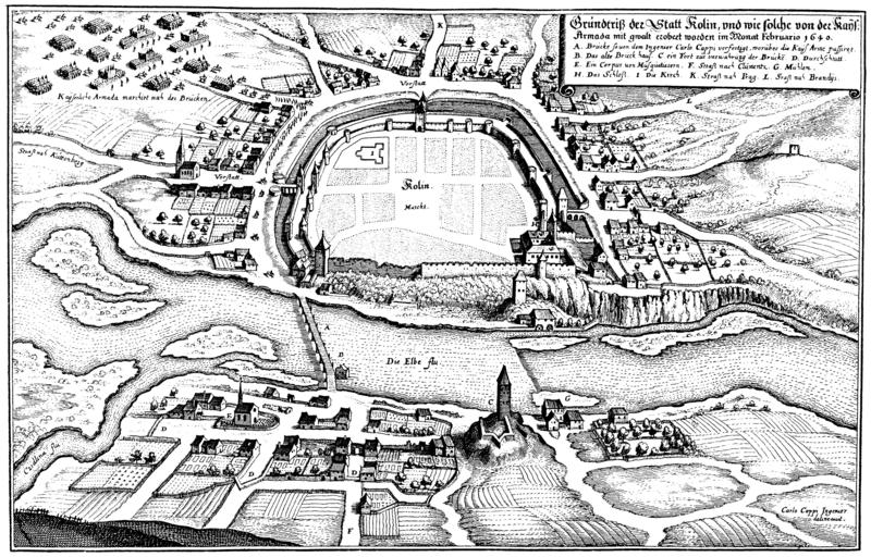 Historical map of the town of Kolín (CZ) from 1640 by Carlo Cappi.